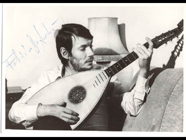 De André with a folk instrument.